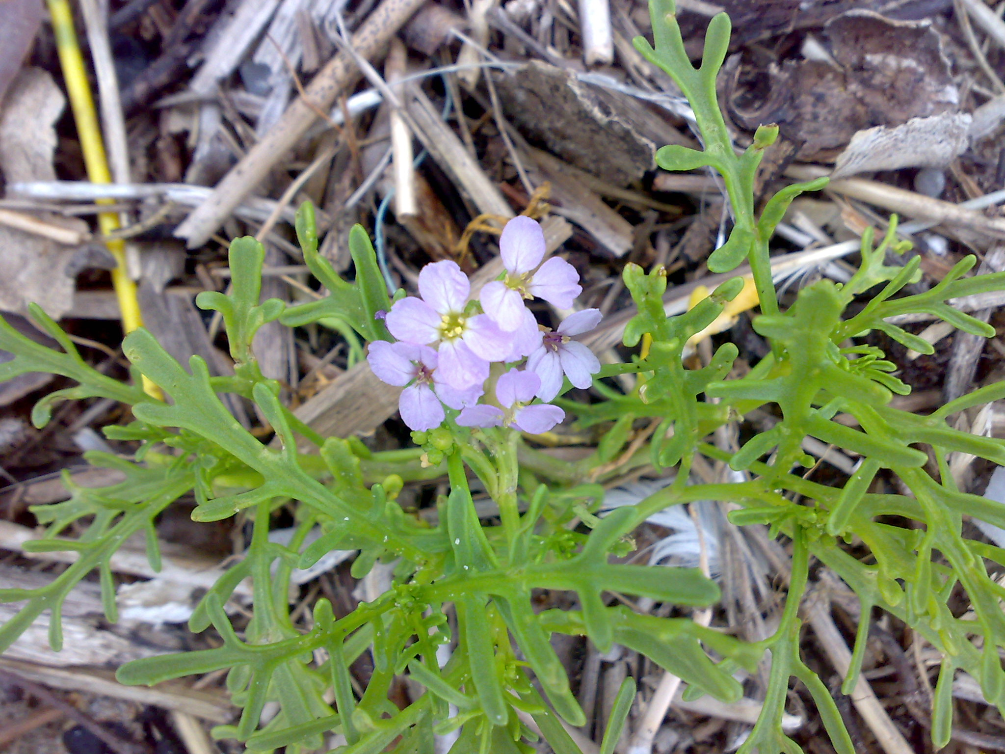 Cakile maritima ssp. integrifolia in Hurum, Norway